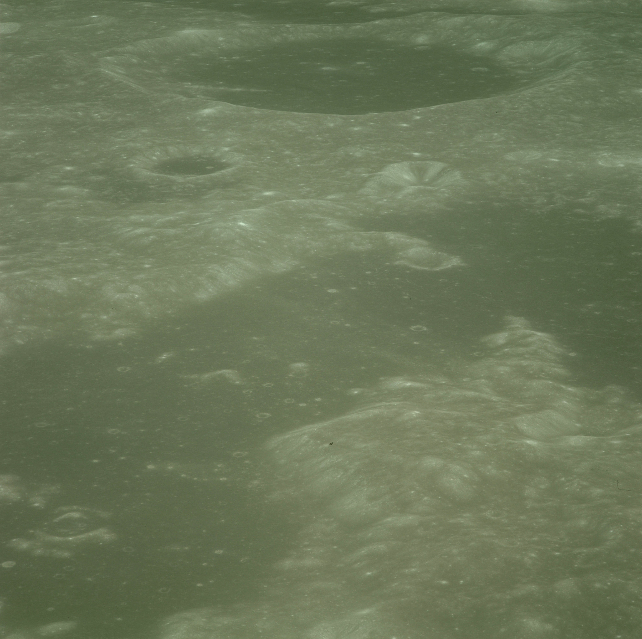 Oblique view of Firmicus crater (top) and part of Mare Undarum, on the moon, from Apollo 10. Brightness and contrast adjusted from original for clarity.